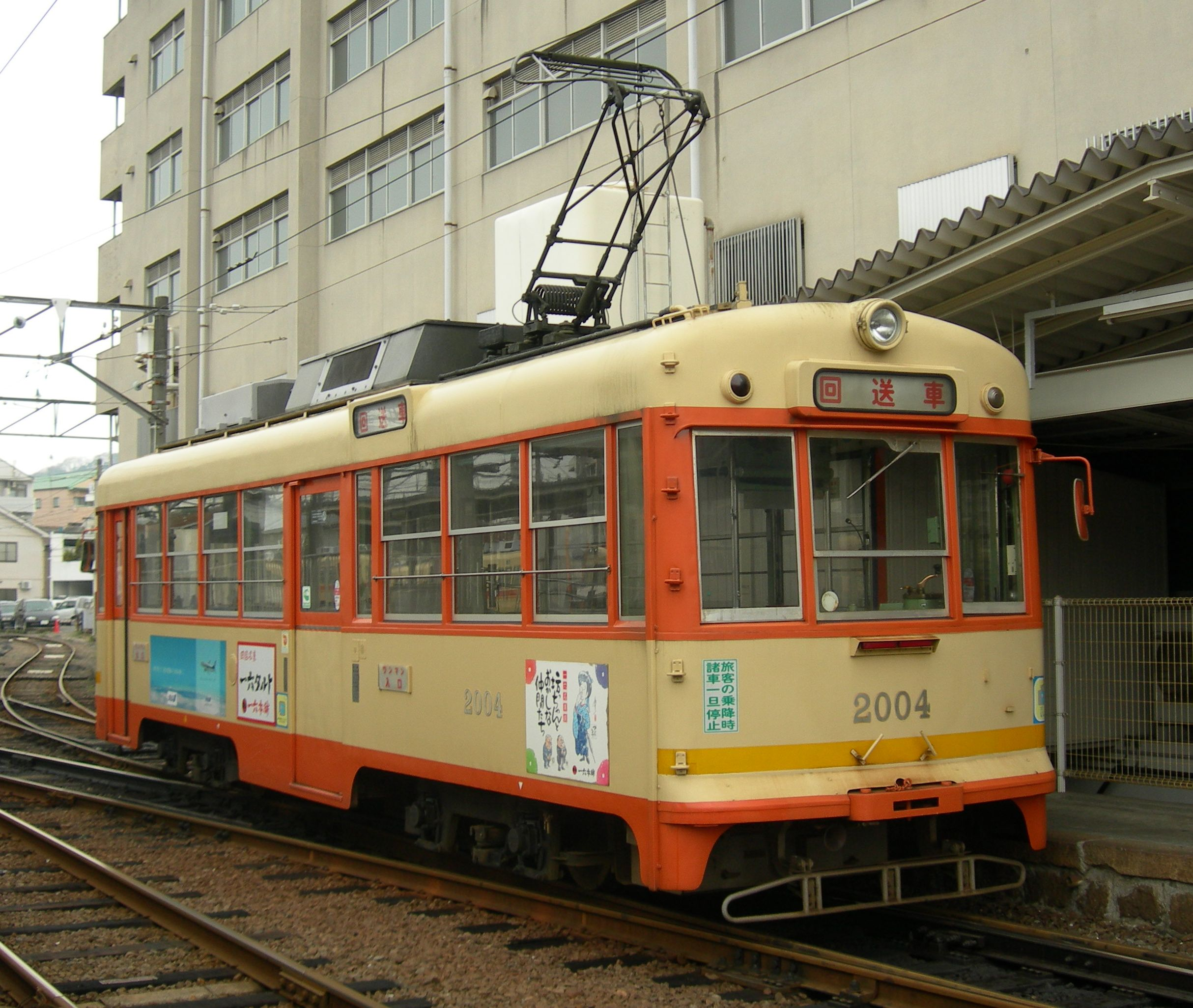 Iyo Railway Moha 2000 series tramcar at Komachi Station